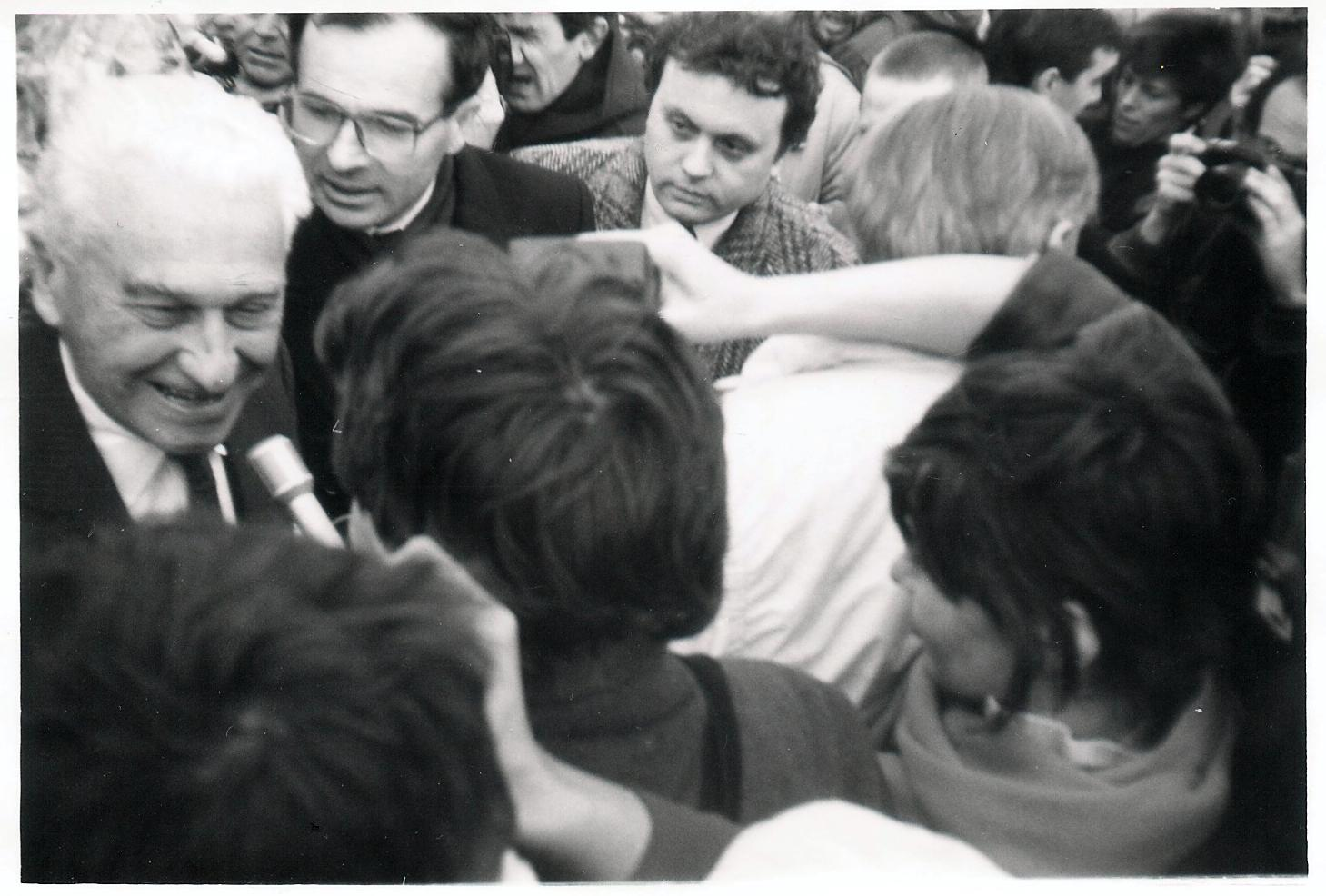 Thomas J Bata interview